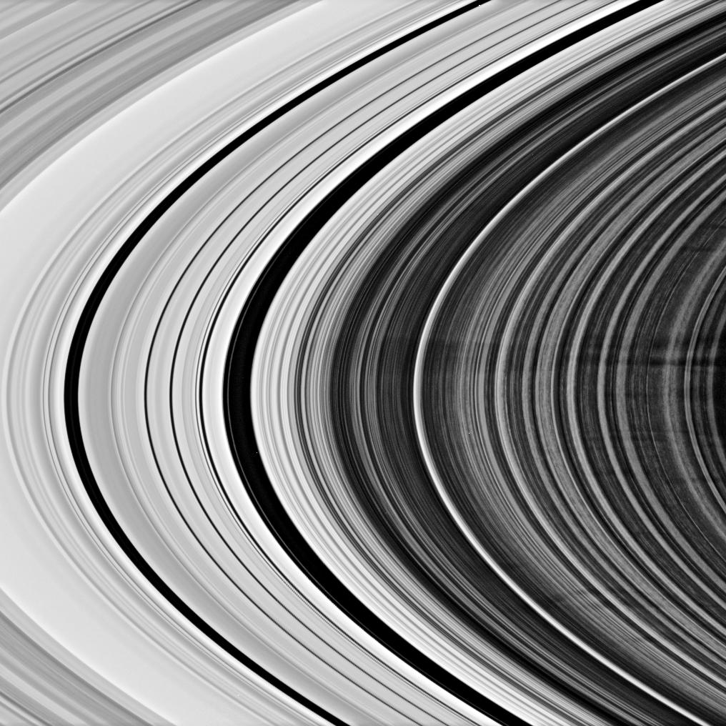 This Cassini spacecraft view shows a group of more than a dozen spokes in Saturn's outer B ring. The B ring displays the azimuthal asymmetry, or variation with longitude around the planet, that is characteristic of the spoke-forming region. The large spoke feature above center -- most likely a grouping of multiple spokes -- is about 5,000 kilometers (3,100 miles) long and 2,000 kilometers (1,200 miles) wide. Left of center, two dark gaps mark the Cassini Division (4,800 kilometers, or 2,980 miles wide). This view looks toward the unilluminated side of the rings from about 9 degrees above the ringplane. The image was taken in visible light with the Cassini spacecraft narrow-angle camera on April 28, 2007 at a distance of approximately 1.6 million kilometers (1 million miles) from Saturn. Image scale is 9 kilometers (6 miles) per pixel. The Cassini-Huygens mission is a cooperative project of NASA, the European Space Agency and the Italian Space Agency. The Jet Propulsion Laboratory, a division of the California Institute of Technology in Pasadena, manages the mission for NASA's Science Mission Directorate, Washington, D.C. The Cassini orbiter and its two onboard cameras were designed, developed and assembled at JPL. The imaging operations center is based at the Space Science Institute in Boulder, Colo. The sun-rings-camera phase angle here is low. The Sun is behind Cassini and off to the side a bit. For more information about the Cassini-Huygens mission visit The Cassini imaging team homepage is at